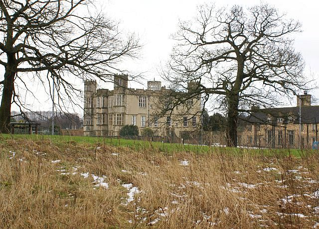 Barlborough Hall School The school is an independent Jesuit Preparatory School for boys and girls aged 3 - 11. Barlborough Hall is a Grade 1 listed building and was built in 1583 by Francis Rodes.